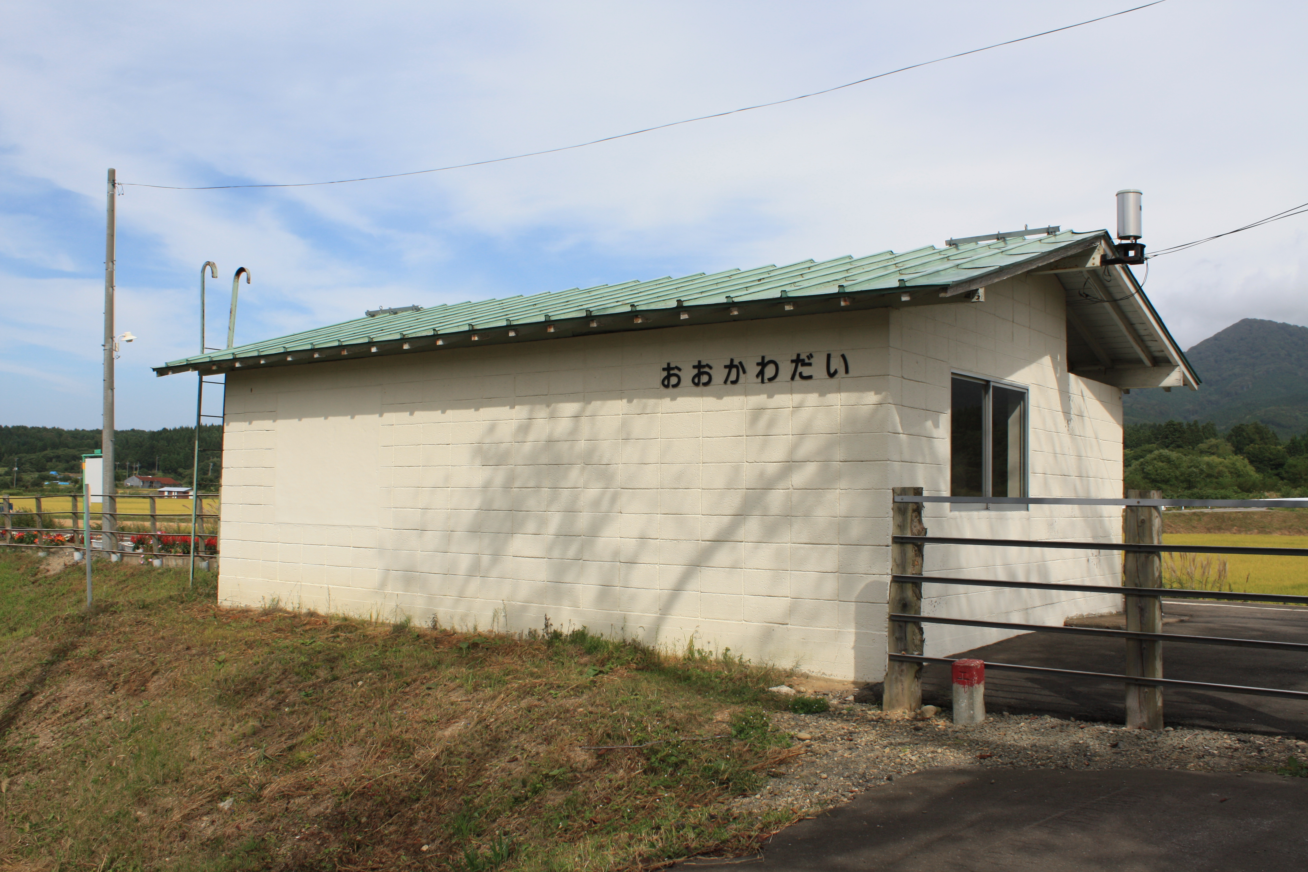 Ōkawadai Station in Imabetsu, Aomori, Japan. It is the station on the Tsugaru Line operated by JR East.